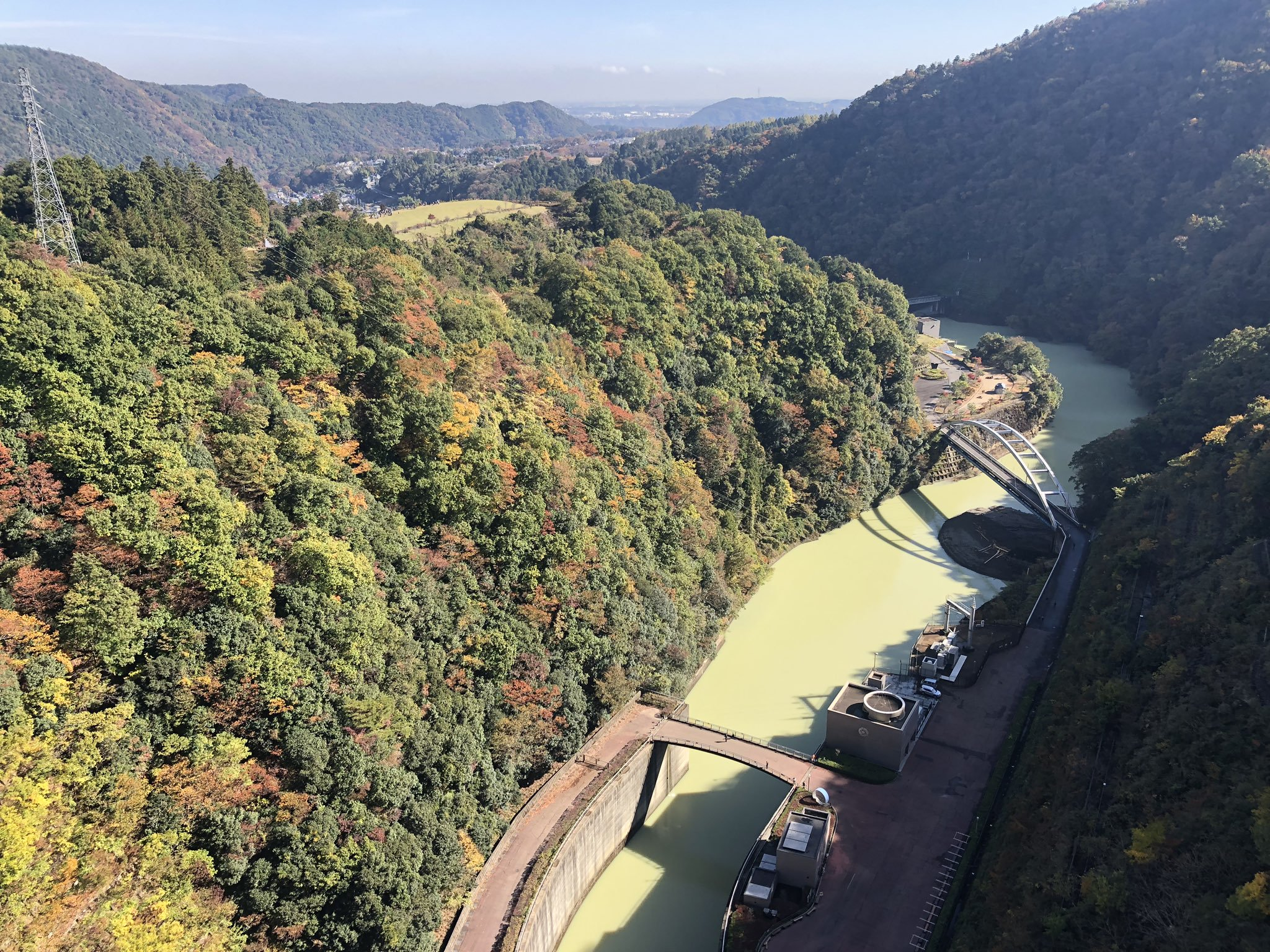 Ishigoya Lake sediment (fan-like deposits under the bridge on the back side) caused by heavy rain of Typhoon No.19 in 2019.